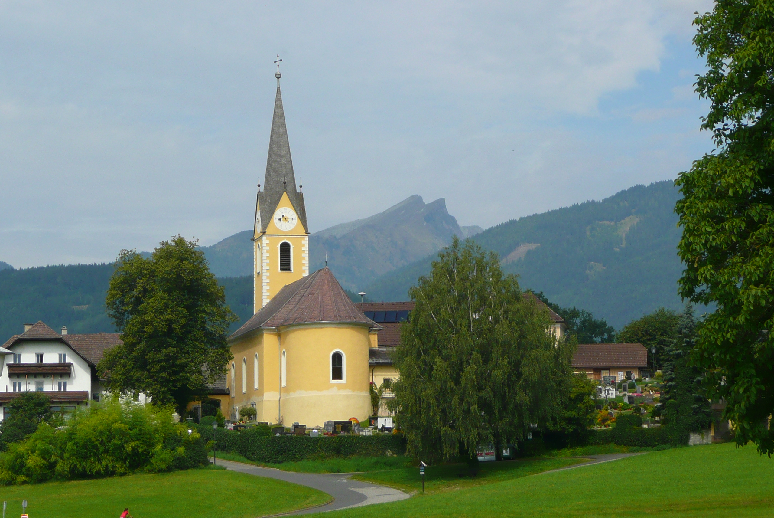 Church in Unterhaus in Seeboden, Carinthia, Austria